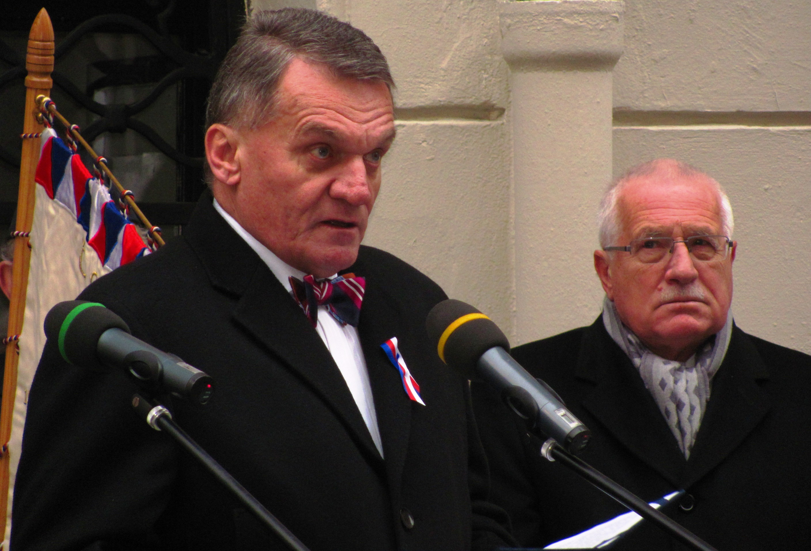 Václav Klaus, President of the Czech Republic and Bohuslav Svoboda, Mayor of Prague